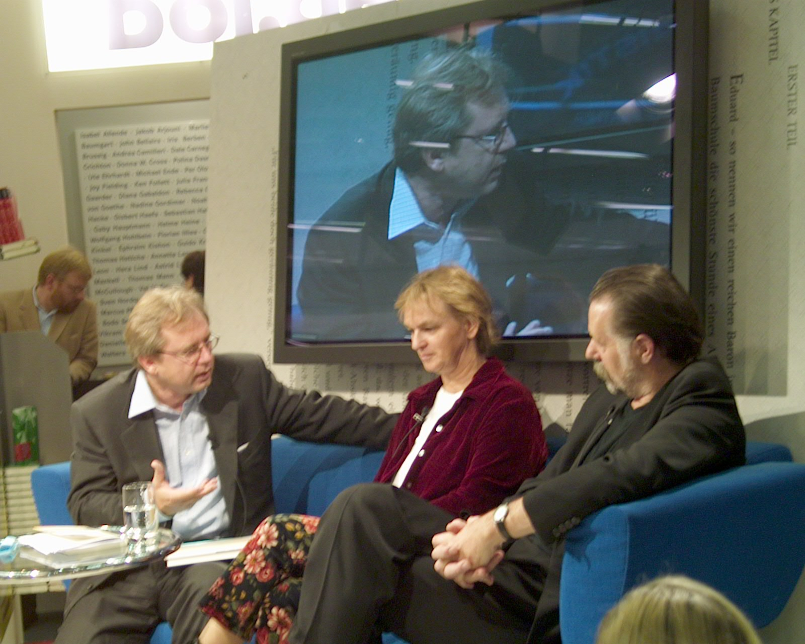 German authors and former spouses Elke Heidenreich and Bernd Schroeder on the Blue Sofa. Copyright: Das Blaue Sofa / Club Bertelsmann.